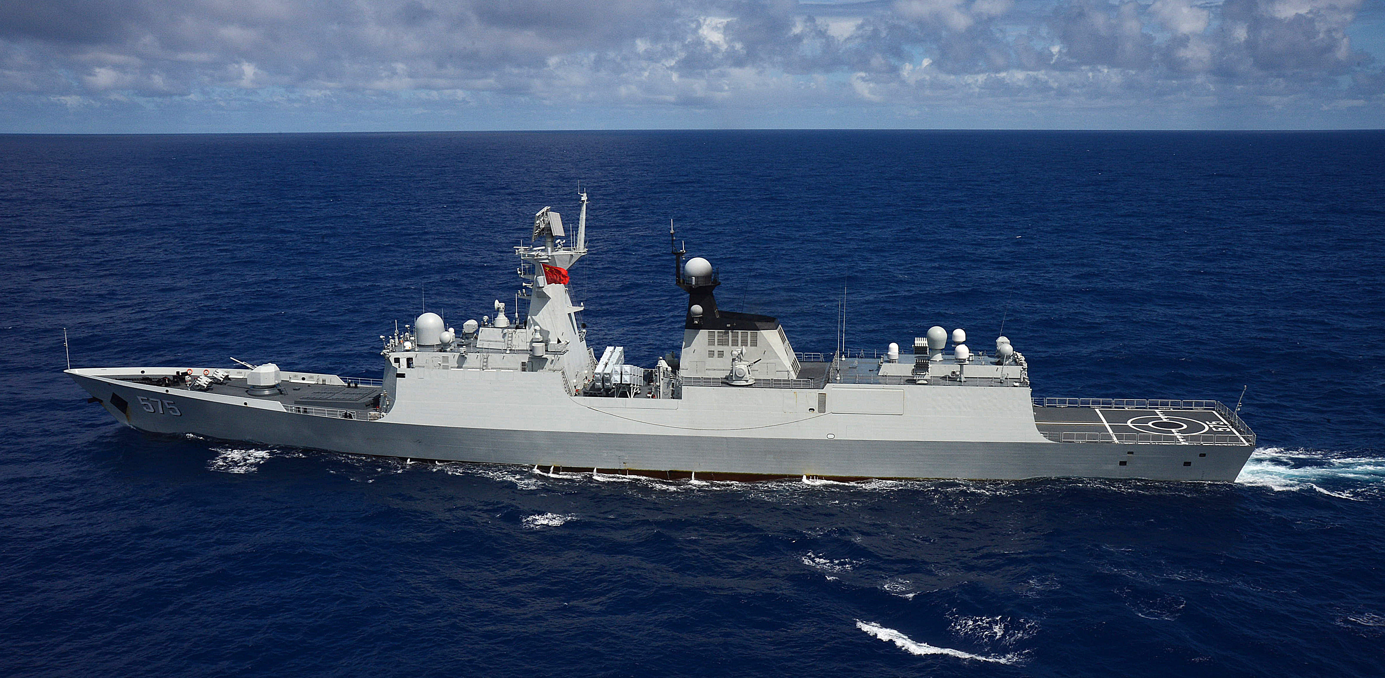 People's Republic of China frigate PLA(N) Yueyang (FF 575) steams in formation with 42 other ships and submarines representing 15 international partner nations during Rim of the Pacific (RIMPAC) Exercise 2014.